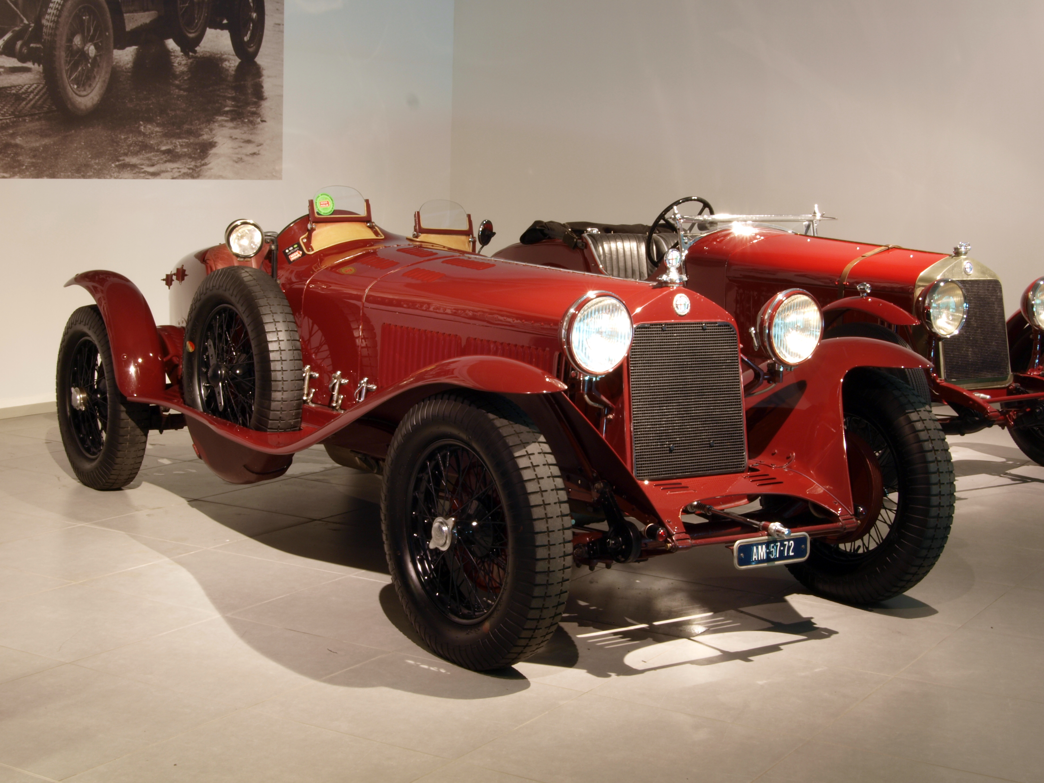 Photographed at the Louwman museum / Louwman Collection, The Netherlands.